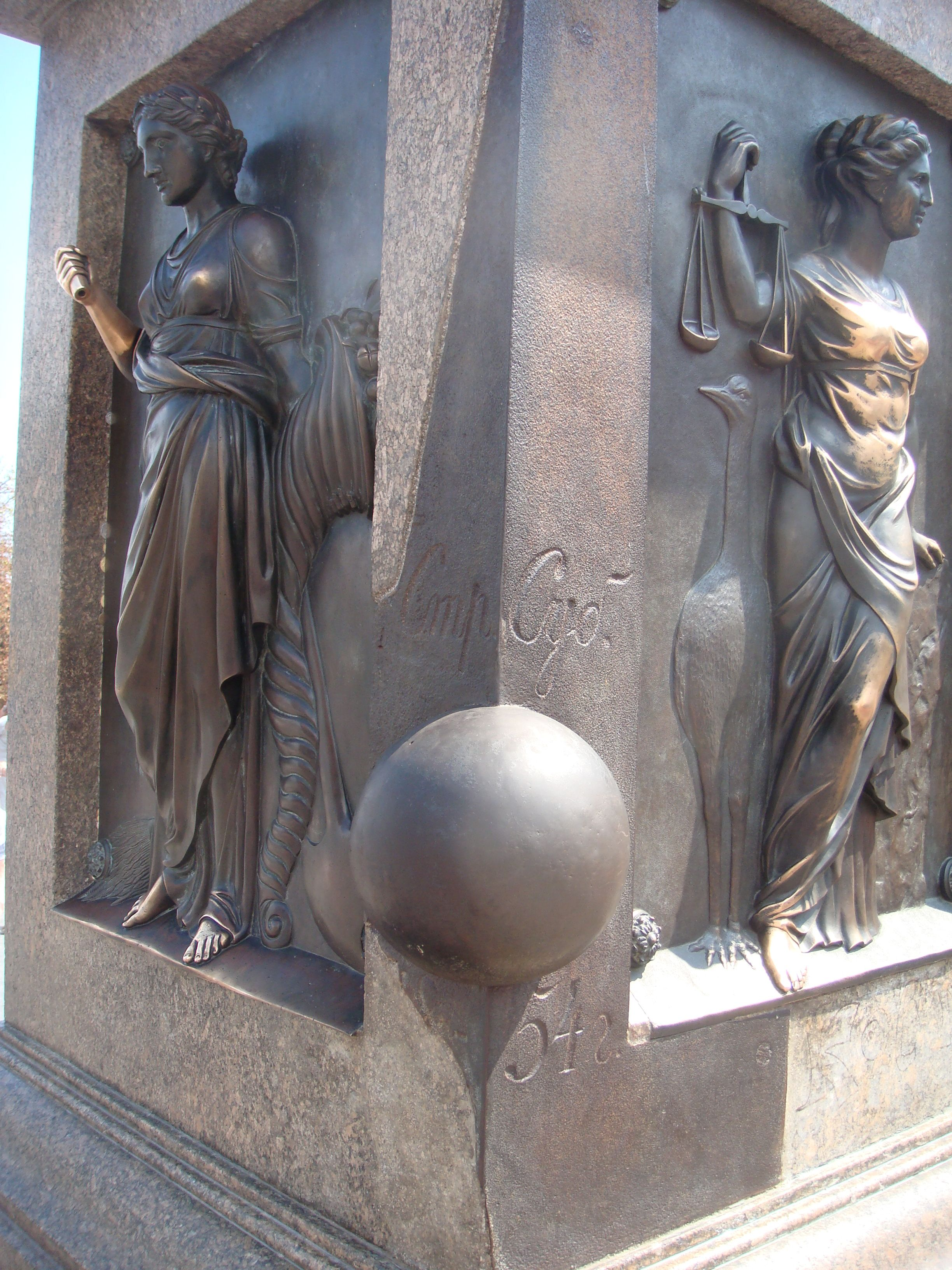 Joined English-French fleet attacked Odessa during Eastern War in April 1854. City was under ship's guns fire and some buildings were destroyed. Monument to one of the city's founder - Armand Duplessis Duc de Richelieu - suffered as well. It was decided to commemorate that bombardment and losses to the city by attaching an iron shell to the pedestal of the monument, at same place were monument was shot.